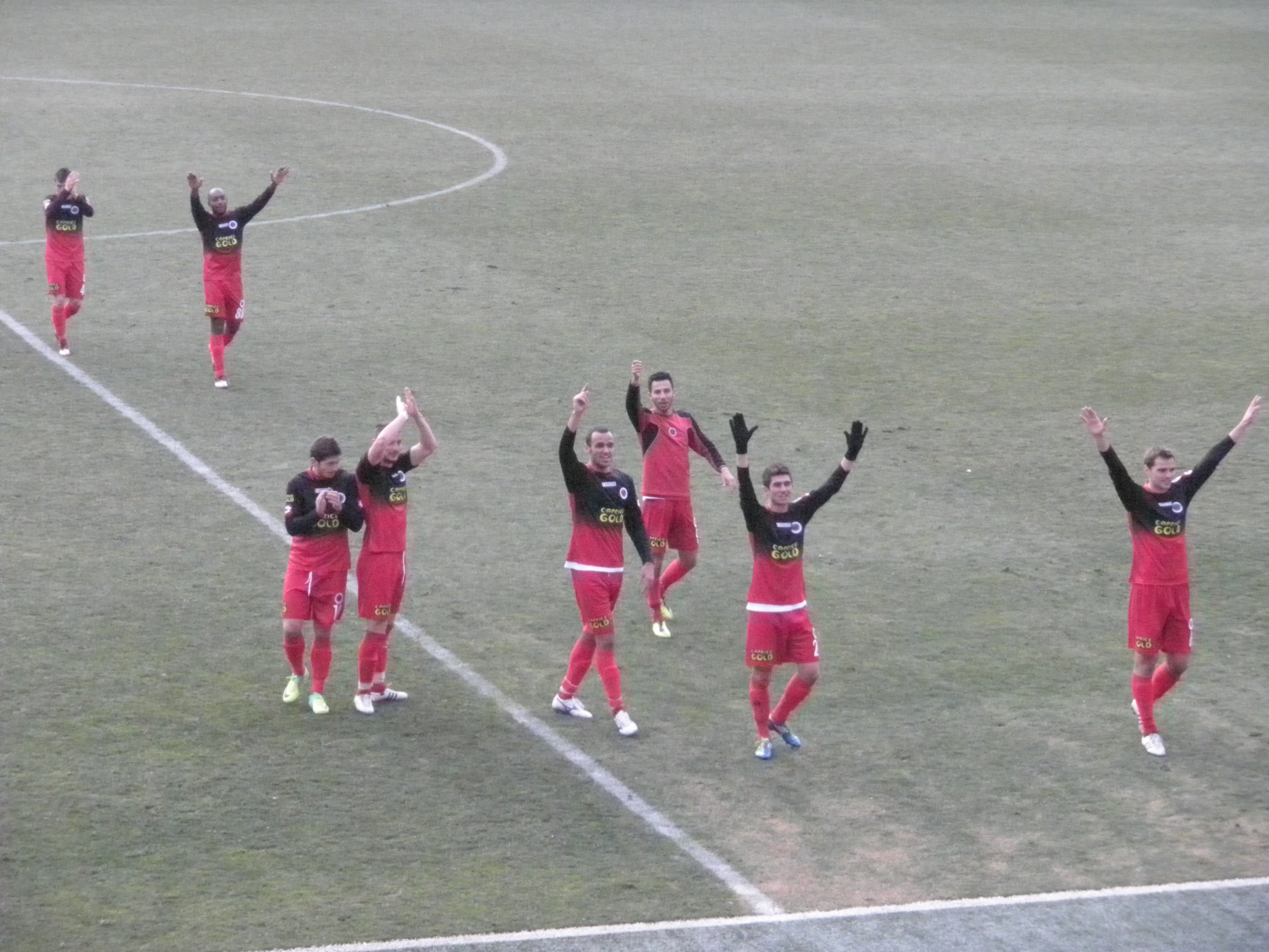 Turkish Super League match: Gençlerbirliği 3-1 Orduspor - Celebration after match